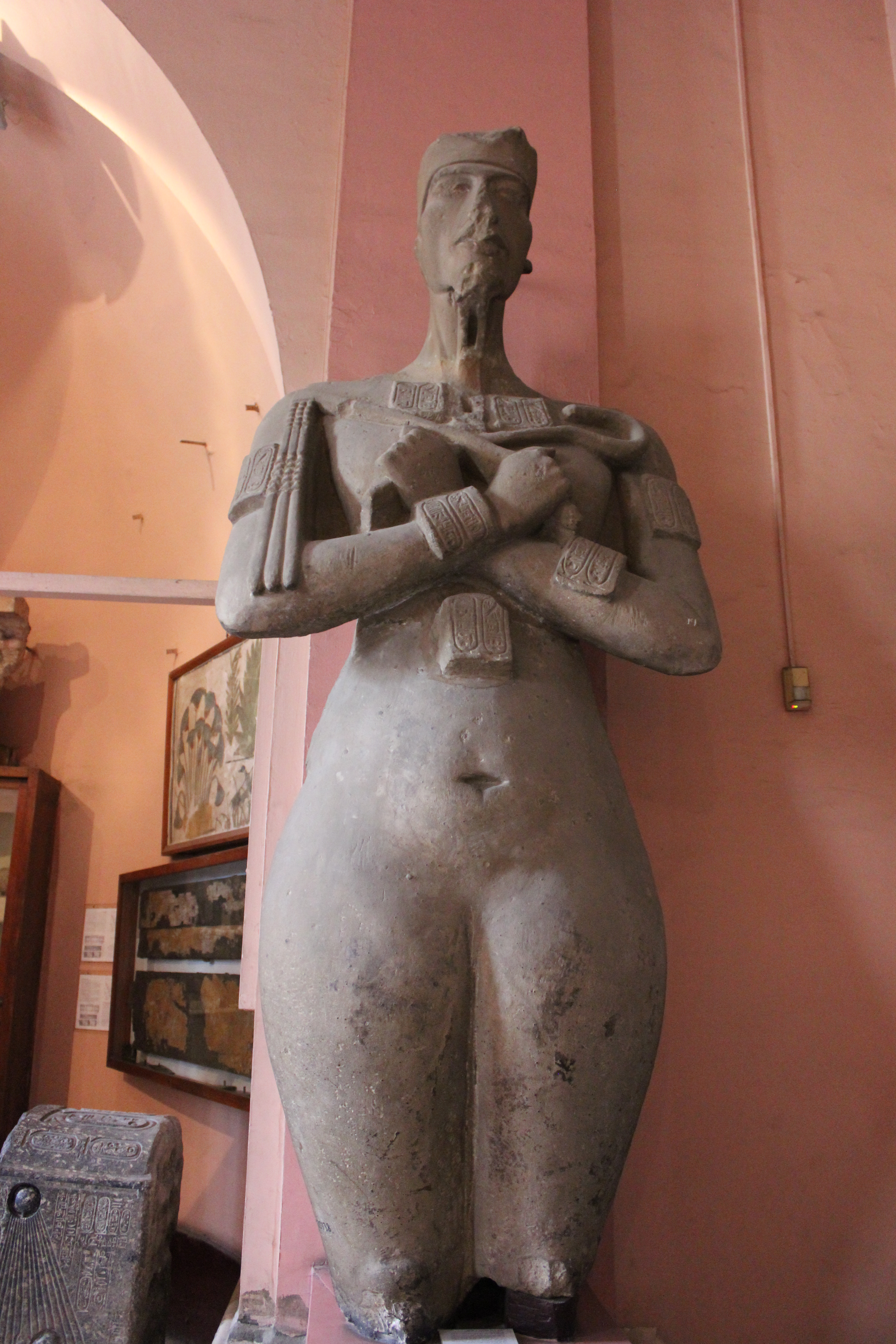 Colossal of Akhenaten or Nefertiti, Egyptian Museum in Cairo, Egypt.)